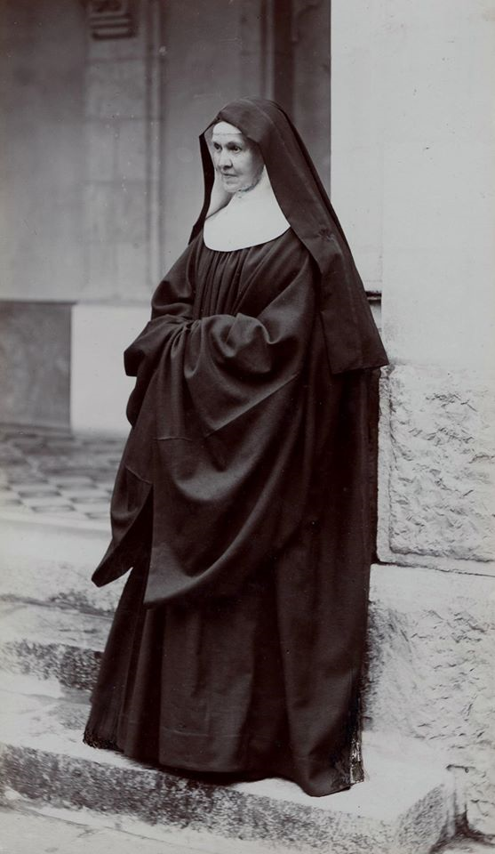 D. Adelaide de Löwenstein-Wertheim-Rosenberg, dressed as a nun after the death of her husband King Michael I of Portugal.